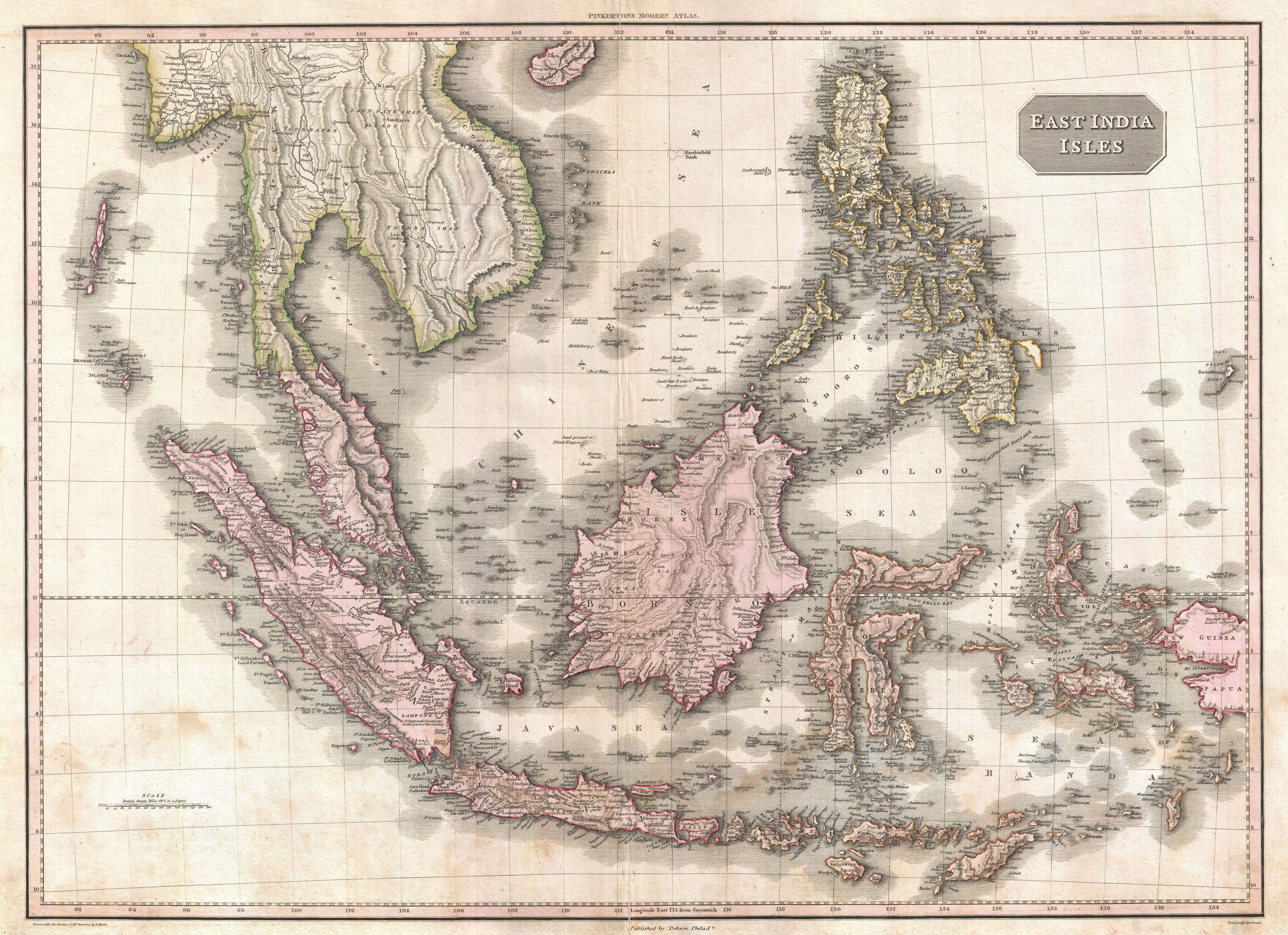 Truly a masterwork of copperplate engraving, this is Pinkerton's extraordinary 1818 map of the East Indies. Covers from Burma south to Java and from the Andaman Islands eastward as far as the Philippines and New Guinea. Includes the entire Malay Peninsula, much of Southeast Asia (Thailand, Cambodia, Vietnam), Sumatra, Java, Borneo and the Philippines. Pinkerton offers impressive detail throughout noting indigenous groups, forts, towns and cities, swamps, mountains, and river systems. Known regions such as Java and Sumatra are full of interesting notes and commentary, such as the sites of various gold mines, plantations, notes on river navigation, and comments on the terrain. Lesser known areas, such as New Guinea and the interior of Borneo, often feature simpler comments suchas Fresh Water or Lava. The island of Singapore, spelled Sincapoor is identified. The island of Rakata, spelled Rakama, where Krakatoa famously erupted in 1883, destroying the island in its entirety, is also identified. Further identifies the important centers of Siam, Bangkok, Malacca, Pegu, Rangoon, Manila, etc. Possibly the finest mapping of the region to appear in the 19th century. Drawn by L. Herbert and engraved by Samuel Neele under the direction of John Pinkerton. This map comes from the scarce American edition of Pinkerton’s Modern Atlas, published by Thomas Dobson & Co. of Philadelphia in 1818.